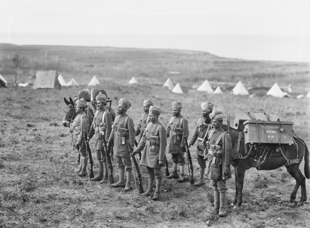 A representative group of Indian sappers and miners of No. 3 Field Company in Tripoli, Lebanon during World War I. The horse is carrying two boxes on its back marked No. 3 Fld Coy 1st KGOS & Surveying No. 26. A tent camp is in the background.